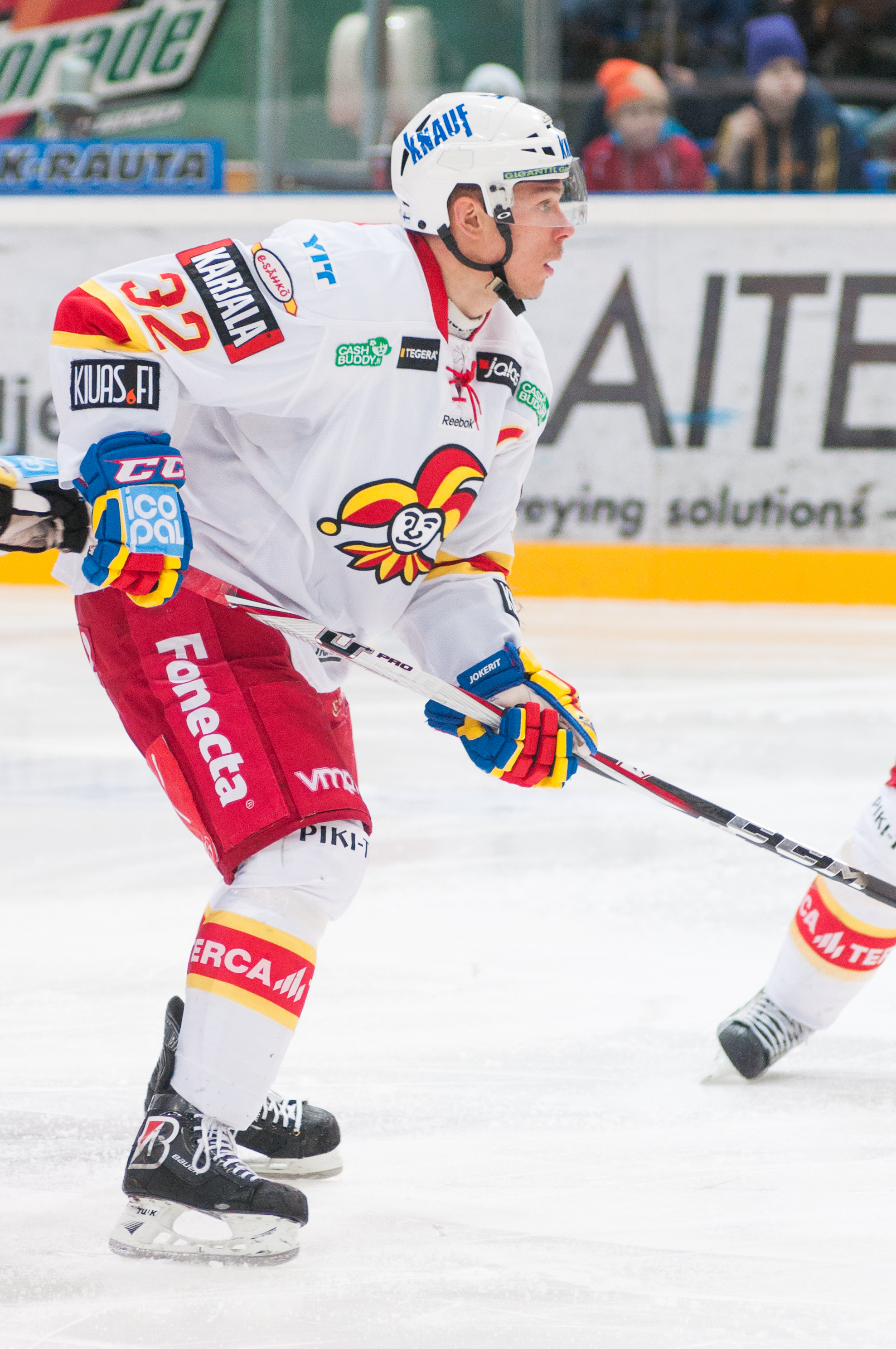 Finnish ice hockey forward Riku Hahl playing for Helsingin Jokerit in Lappeenranta, Finland.